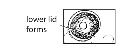 Standard Event System character depiction